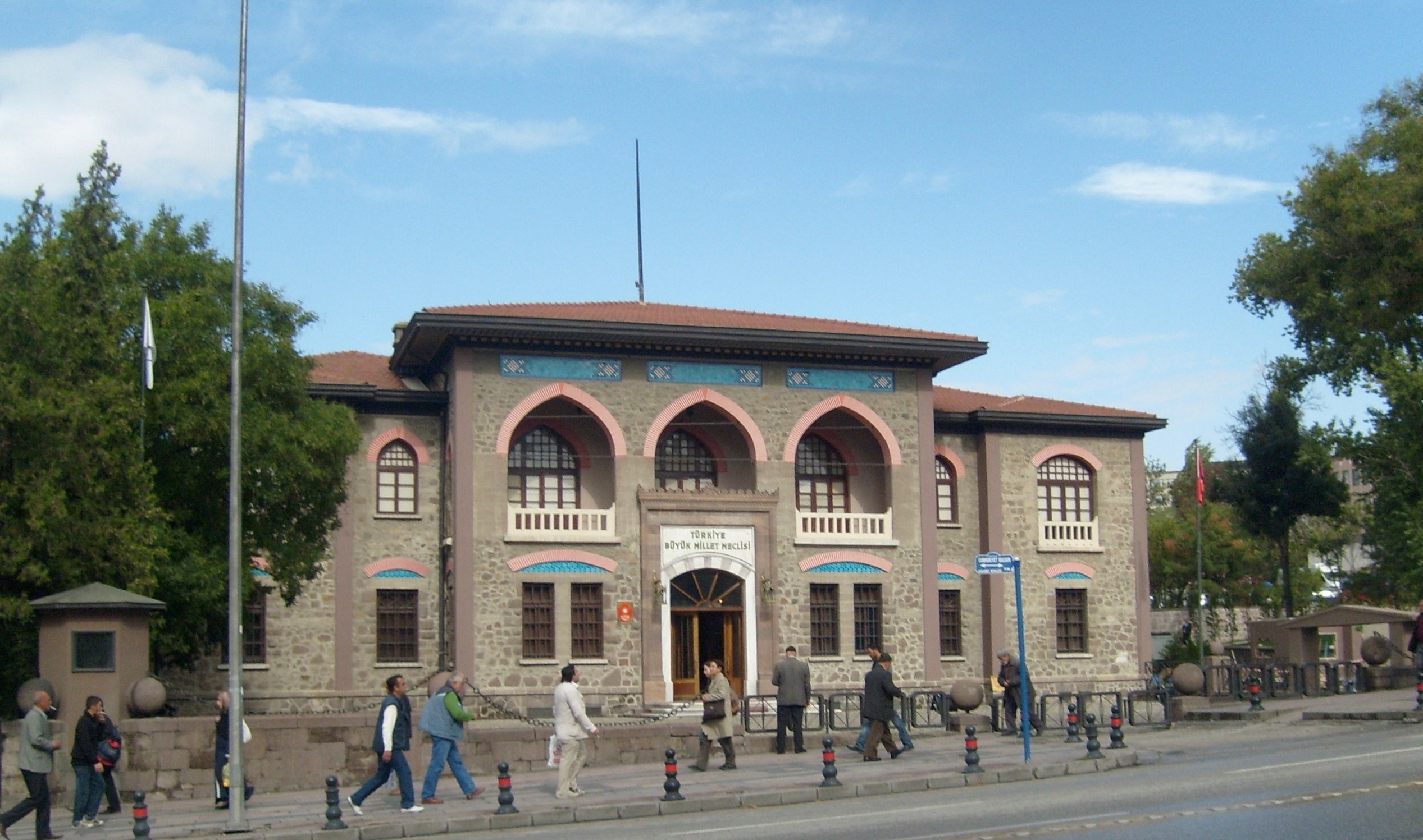 Second Turkish Grand National Assembly Building.